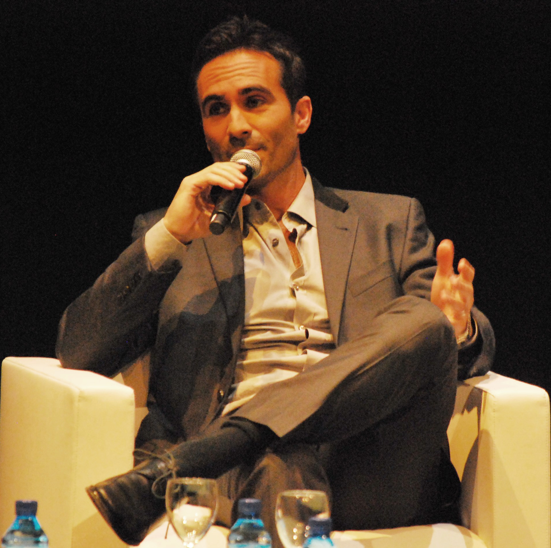 Nestor Carbonell in conversation with Jack Bender for Lost, October 21, 2010